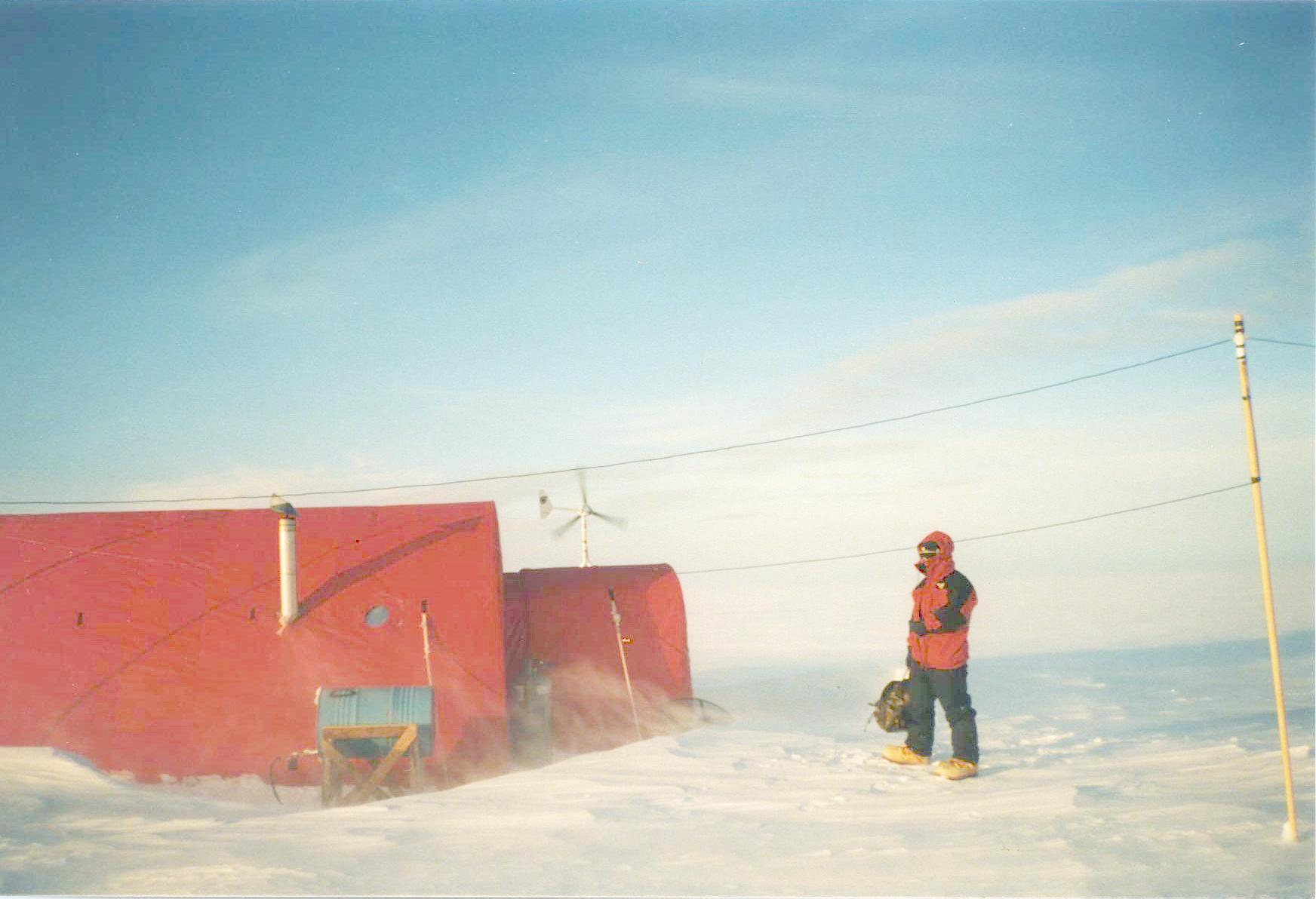 The US american research camp "Raven" on Greenland